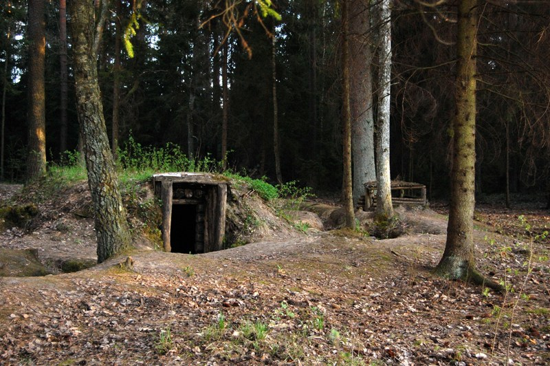 War fortification below ground usually in forests, widely used in Lithuania